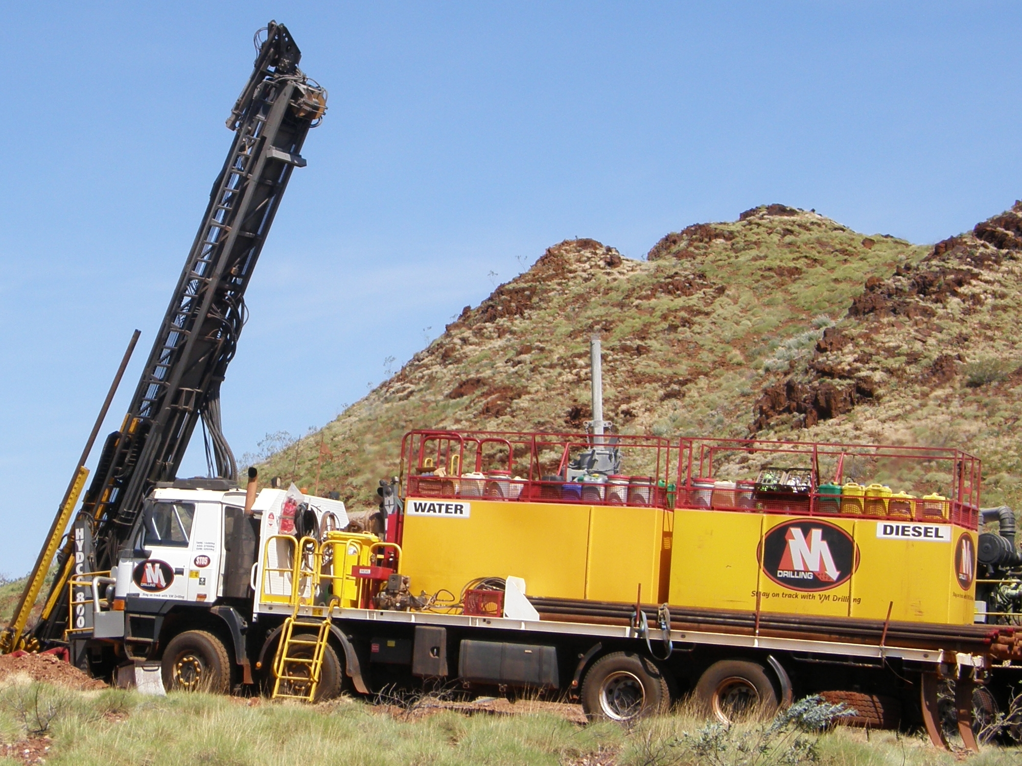 Tatra TerrNo1 as support truck in Fe-ore exploration, Pilbara region, WA, Australia